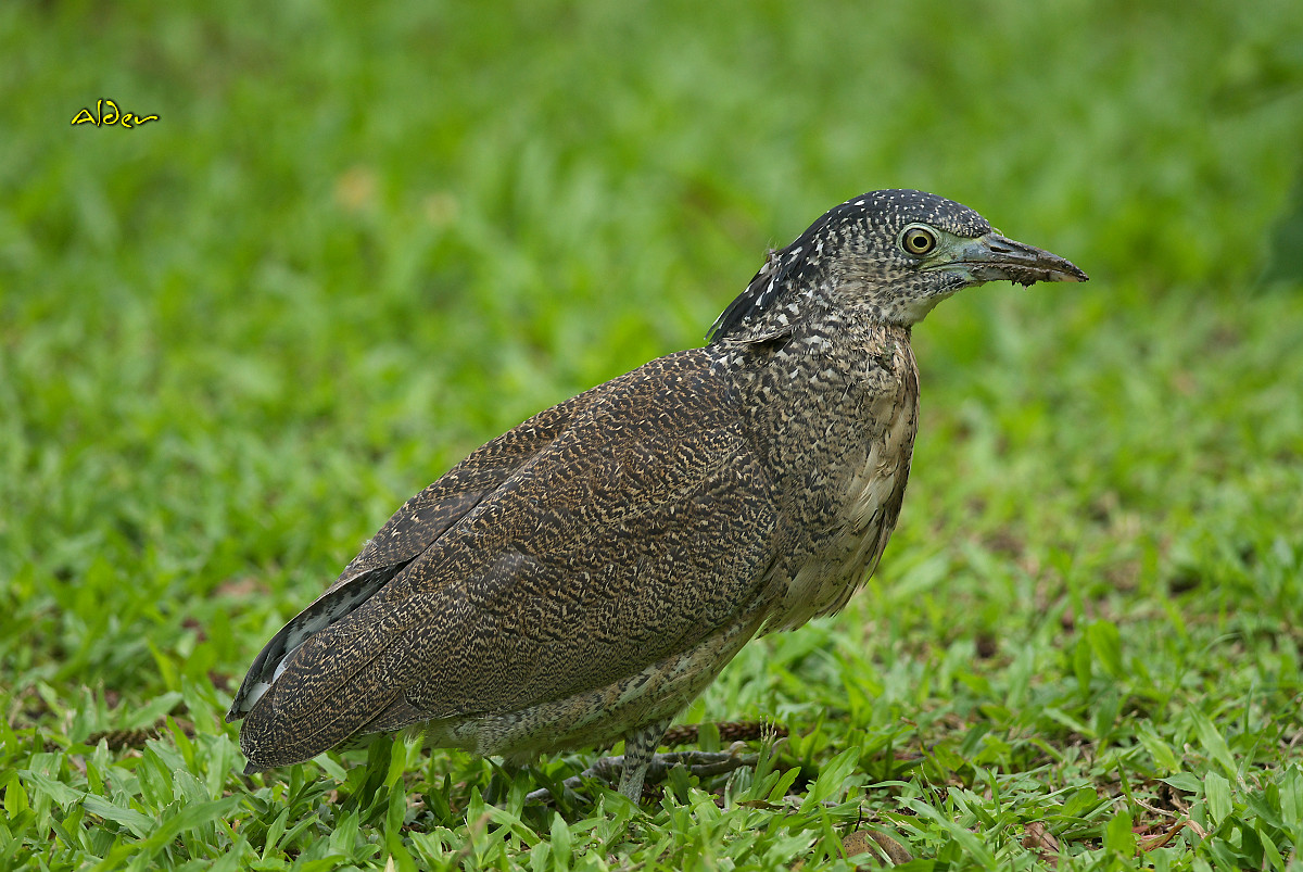 Taken at C.K.S. Memorial Hall, Taipei.